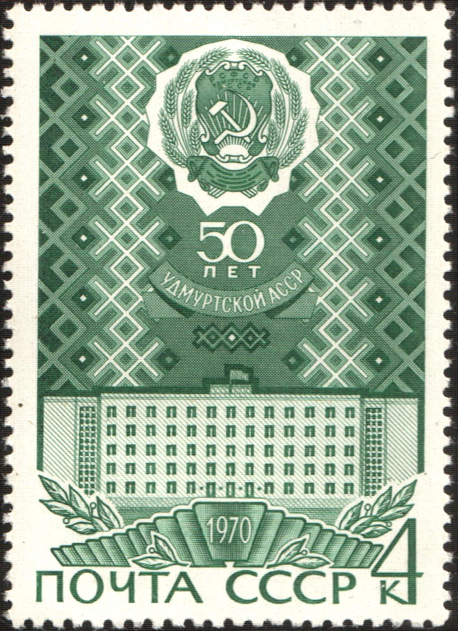 USSR stamp: Udmurt Autonomous Soviet Socialist Republic (Established on 1920.11.04). Series: 50th Anniversary of the Autonomous Republics of the Soviet Union